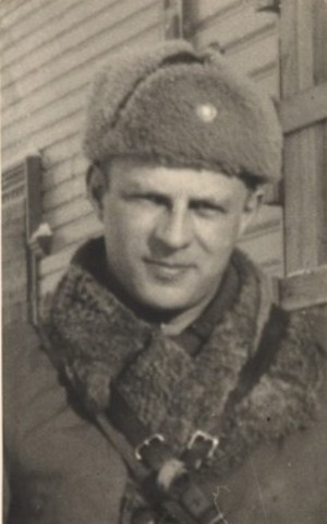 Medical captain Leo Skurnik (1907-1976).